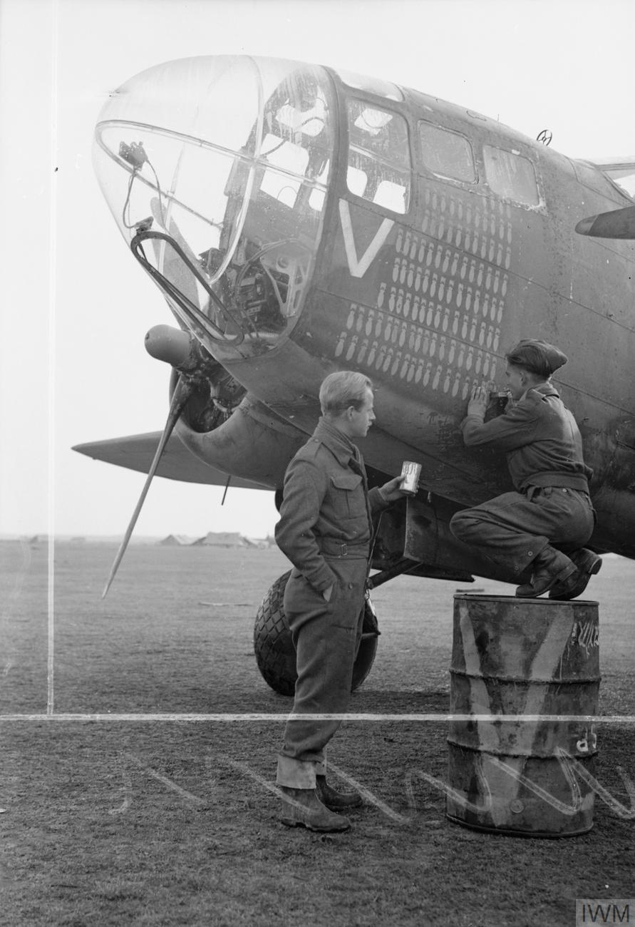 IWM caption : Groundcrew of No. 223 Squadron RAF paint the 105th bomb symbol on the nose of Martin Baltimore Mark IV, 'V' for Vera, at Celone, Italy, to signify the number of successful operations carried out by the aircraft. 'V' for Vera's fitter, Leading Aircraftman P Cowell of Kettering, Northamptonshire holds the paint can, while the rigger, LAC T Newton of Cirencester, Gloucestershire, wields the brush.